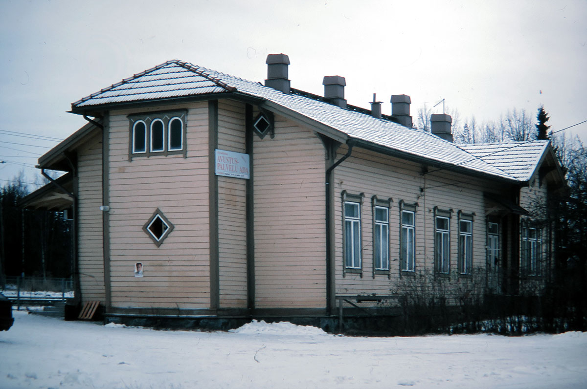 Piikkiö railway station (December 2012)